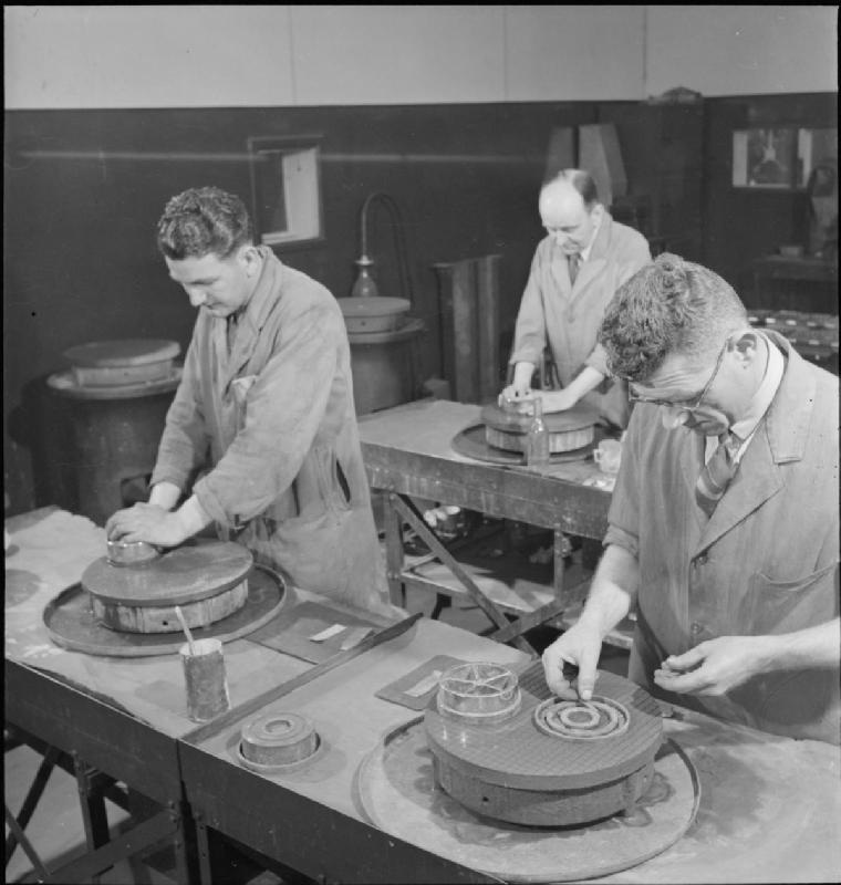 The British Machine Tool Industry- the Manufacture of Industrial Tools and Equipment, UK, 1945 Men at work in the manufacture of slip gauges at a machine tool factory, somewhere in Britain. According to the original caption, these gauges "are rectangular blocks of special quality steel of extreme hardness and stability, having two opposite faces lapped flat and parallel in terms of millionths of an inch, so that a series can be wrung together to produce any required size".